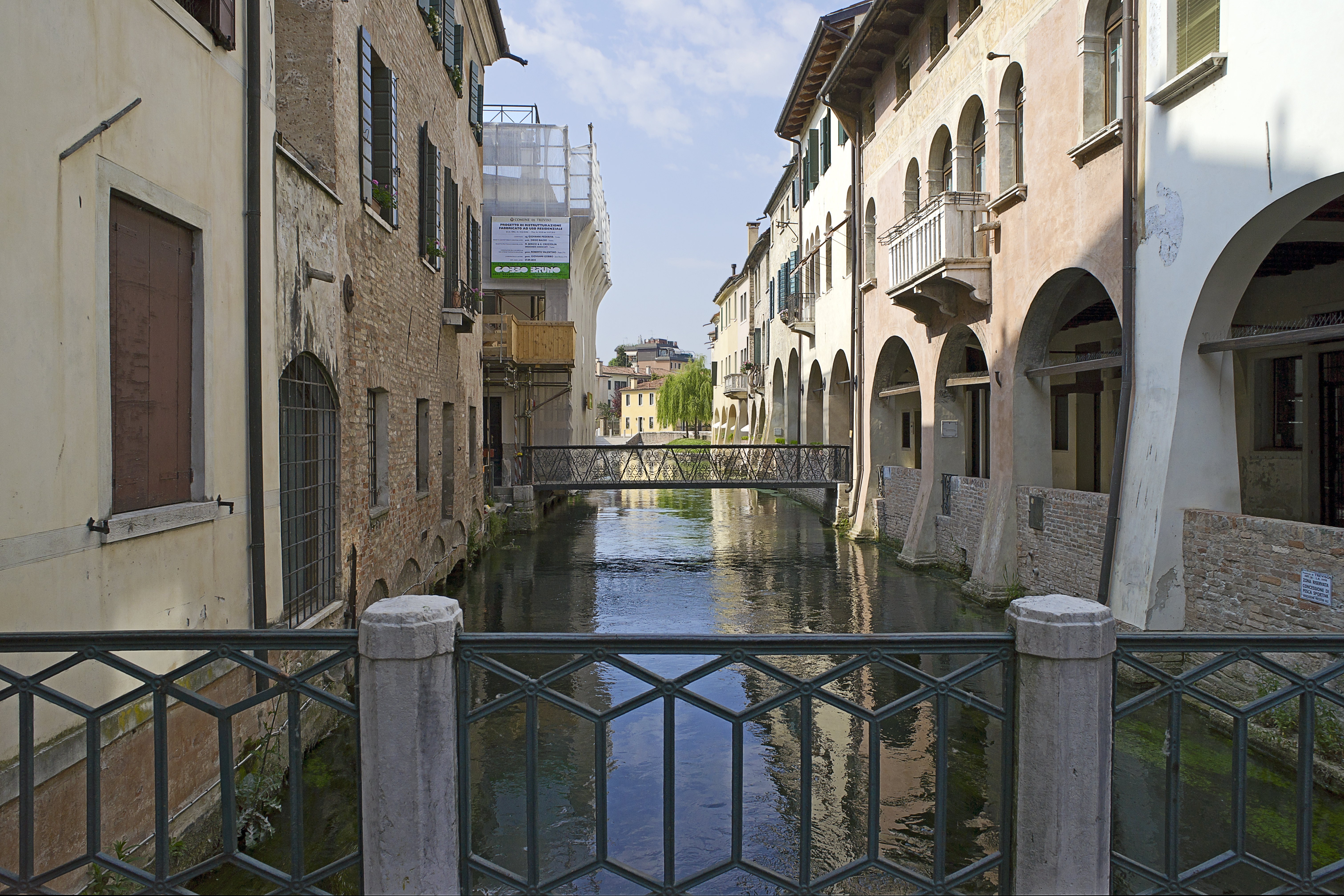 Channel View, which runs along the via Buranelli " - Treviso